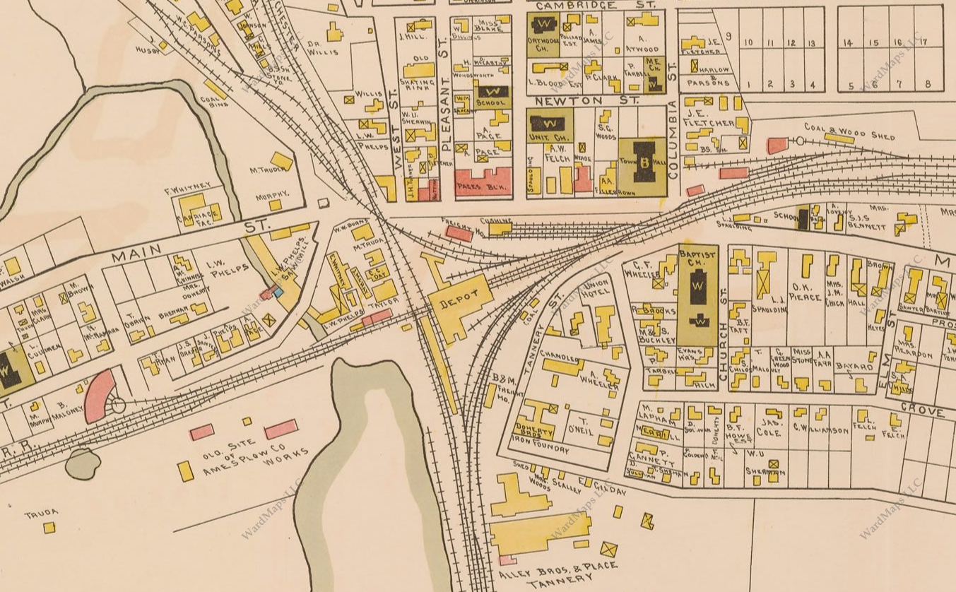 Detail from an 1889 map of Ayer, Massachusetts, showing the large station and surrounding rail facilities